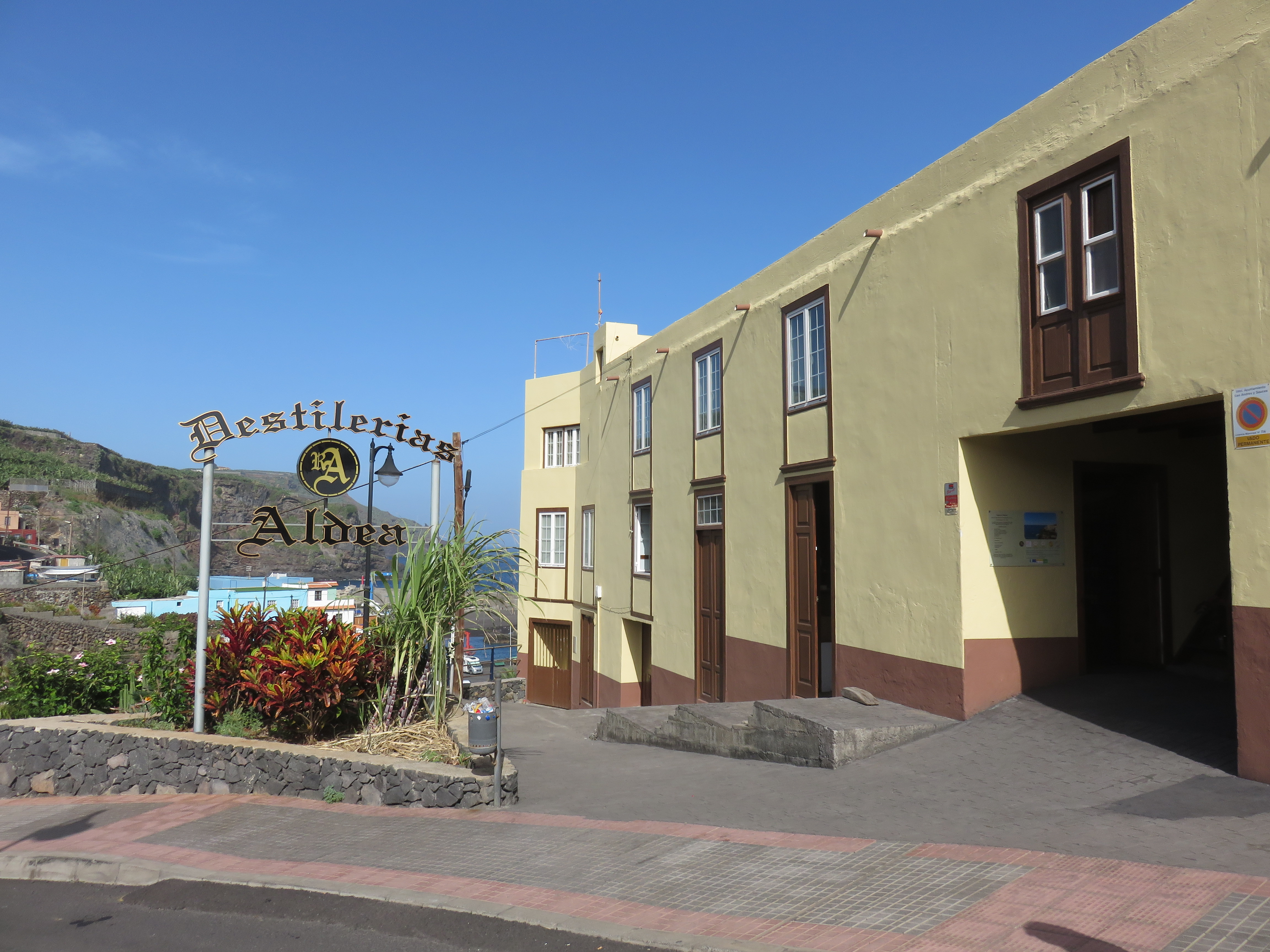 Destilerias Aldea in San Andres, La Palma